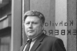 Photograph of the Finnish painter and film director Eino Ruutsalo (1921–2001).